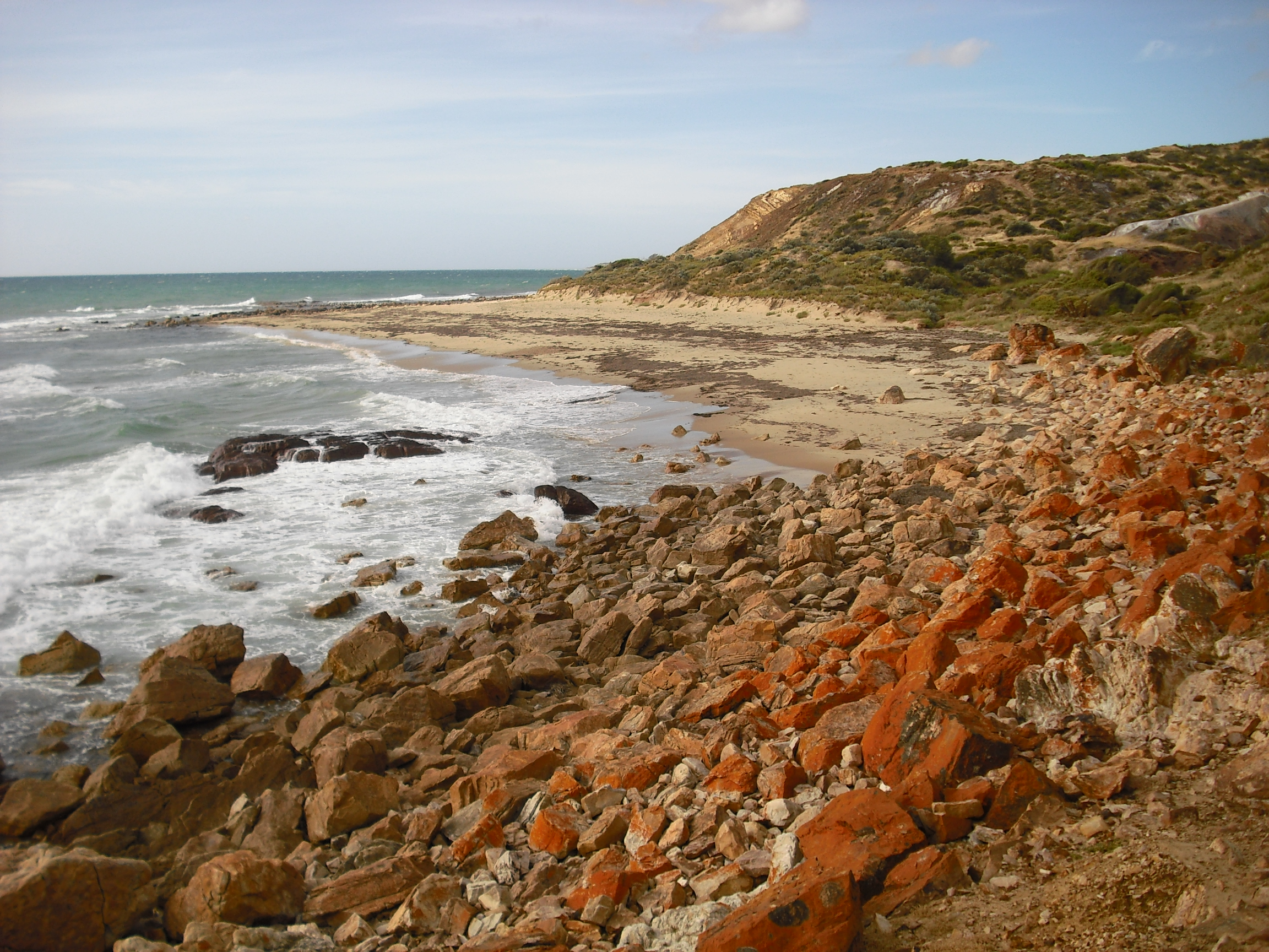 On a coastal trail in the Ochre Point area (border of Moana, SA and Maslin Beach, SA)